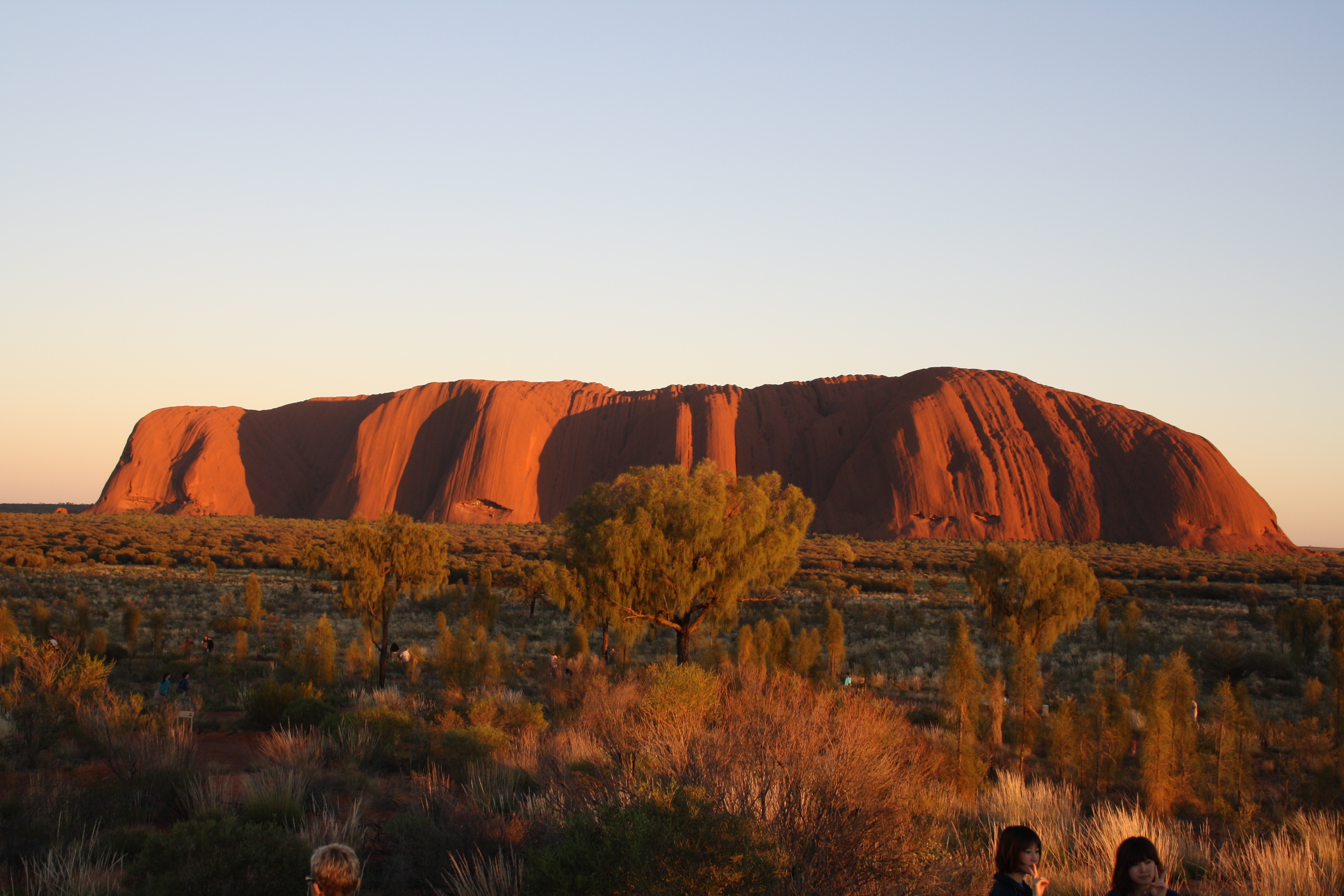 Sunrise over Uluṟu (Ayers Rock), March 2010